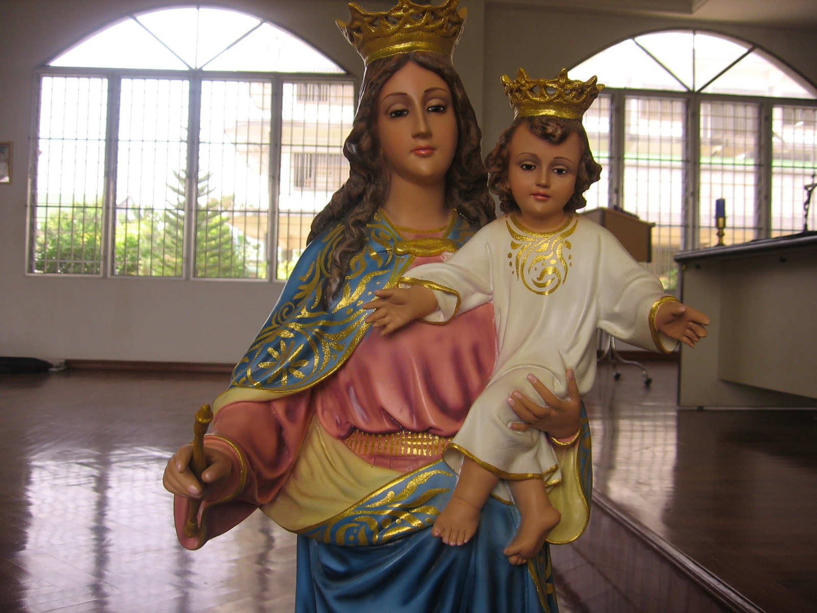 Statue of Mary Help of Christians in the Saint Francis de Sales Chapel, Don Bosco Technical School, Sihanoukville, Cambodia.